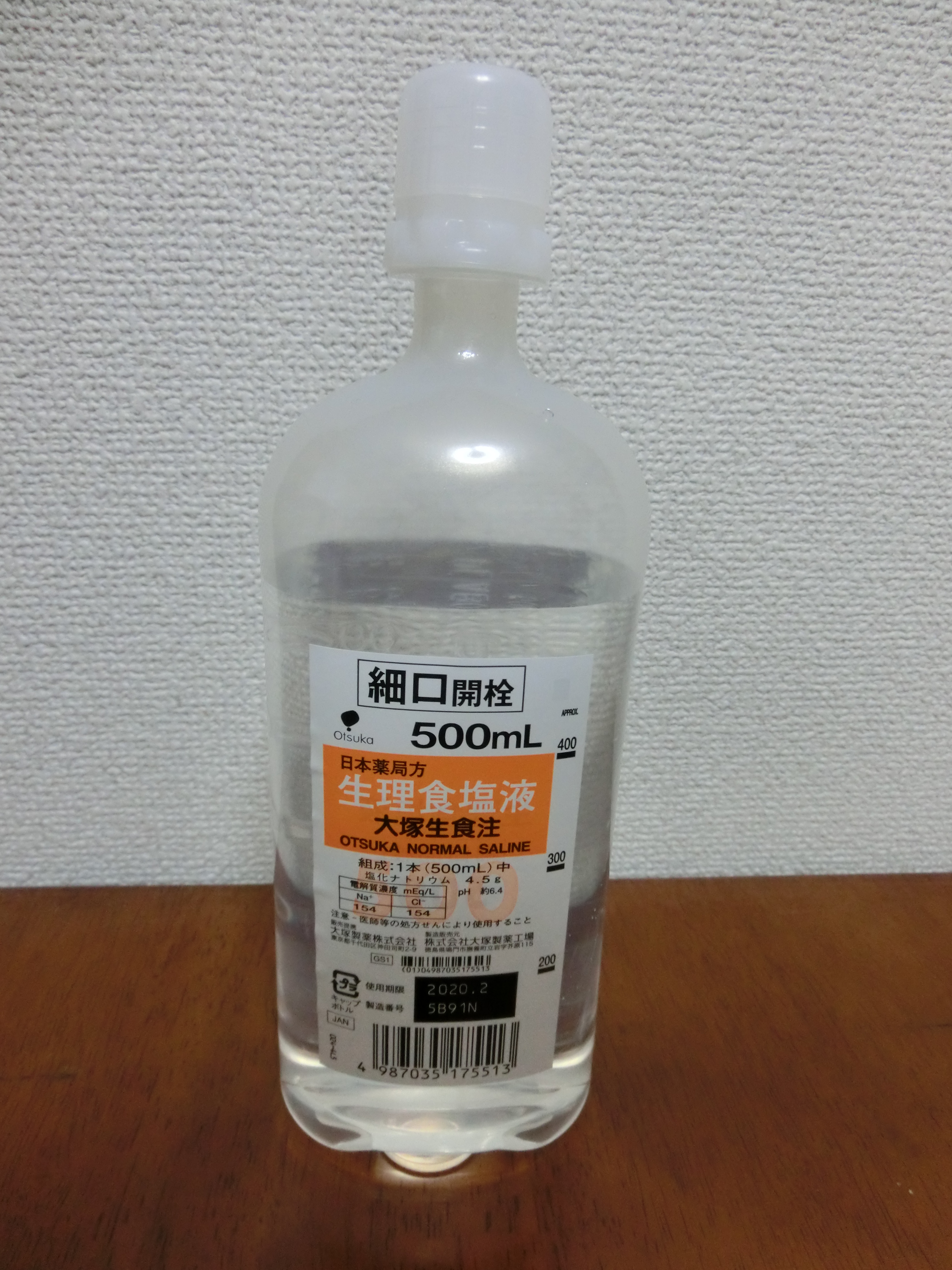 Otsuka Normal Saline (saline solution) 500ml Producted by Otsuka Pharmaceutical Factory, Inc.